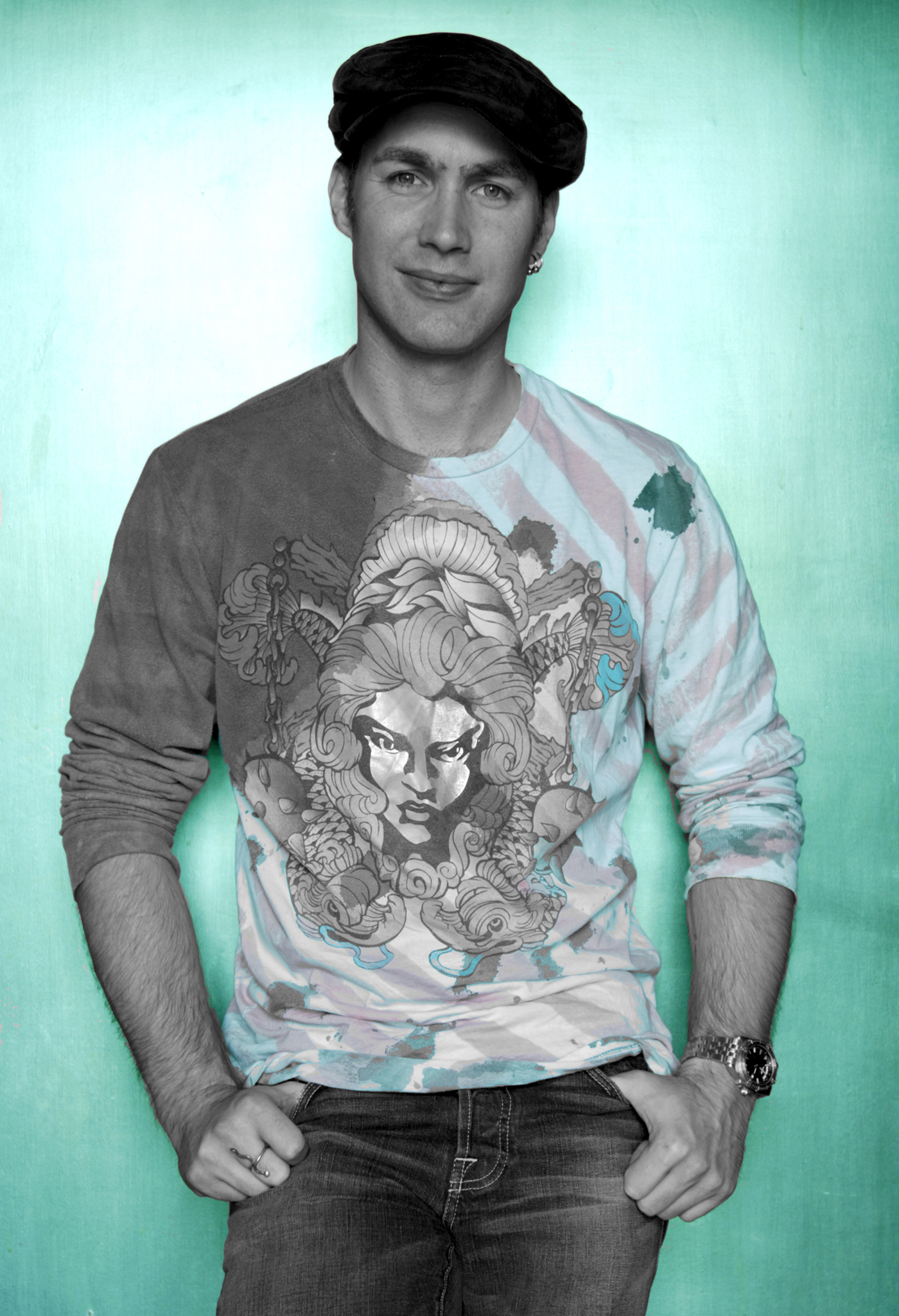 Justin Sandercoe, Stanley House, London.